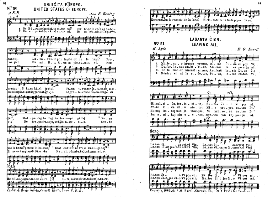 PNG of two songs based on a PDF scanned from a ca. 1920 hymnal